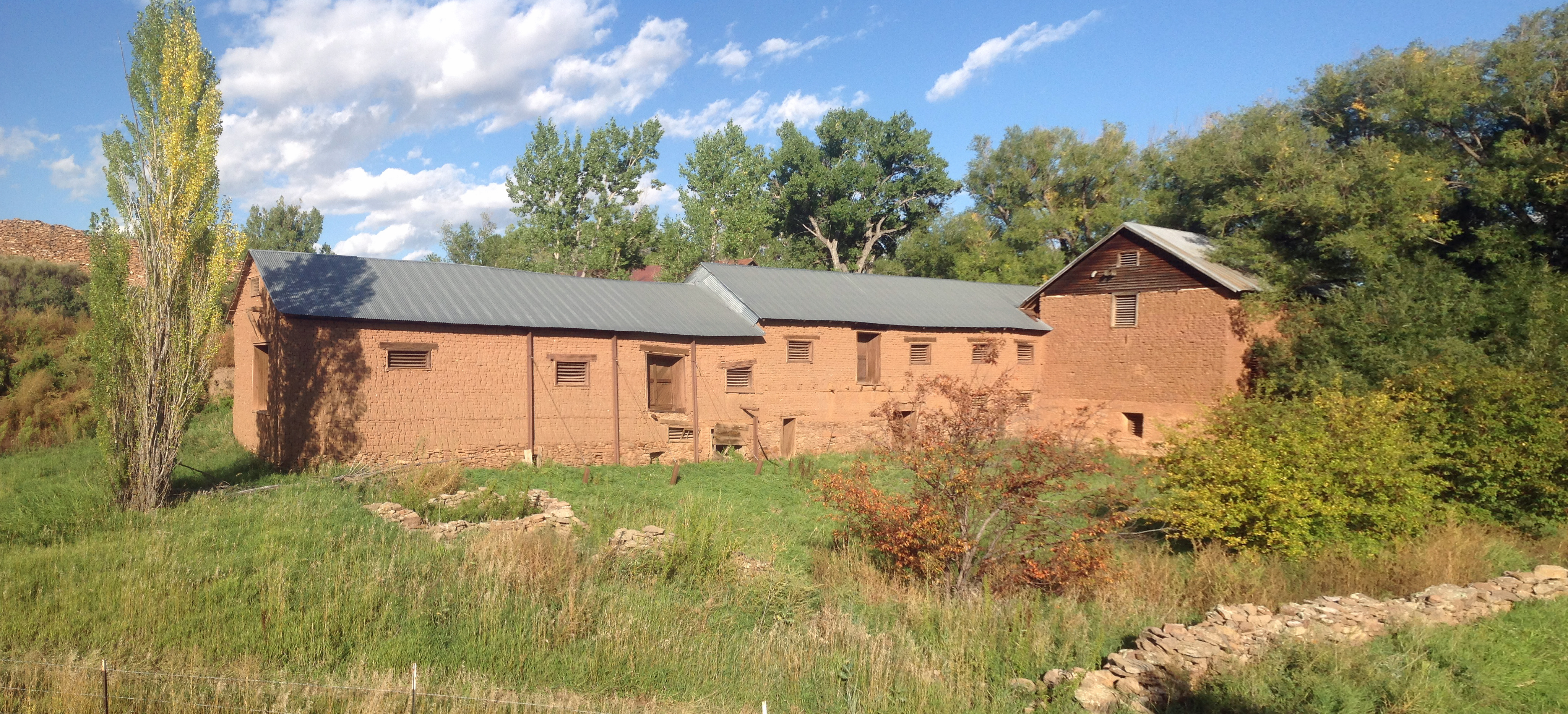 La Cueva Historic District, 6 miles southeast of Mora at the junction of State Roads 3 and 21 Mora